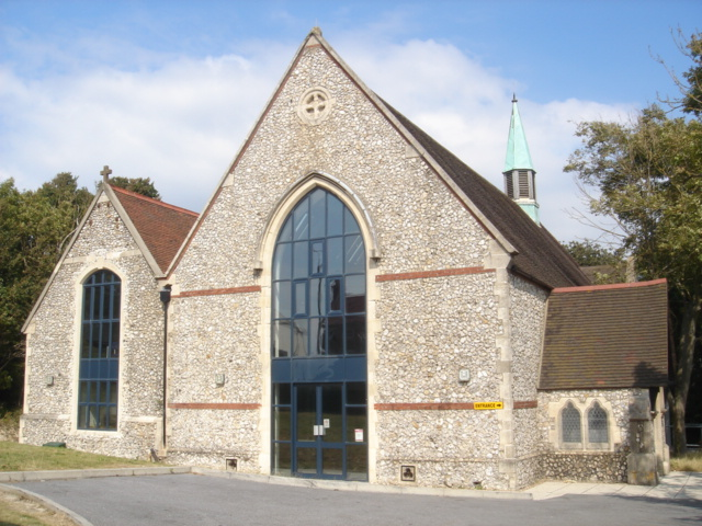 General view of St Andrew's Church, Church Road, Portslade-by-Sea, City of Brighton and Hove, England.